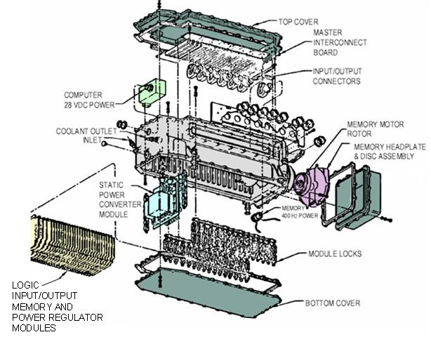 I created this image by editing and annotating an original from ICBM Prime Team, TRW Systems. Minuteman weapon system history and description. July 2001. Prepared for: Intercontinental Ballistic Missile (ICBM) System Program Office (SPO), Hill AFB, Utah 84056. This is a US Government document.